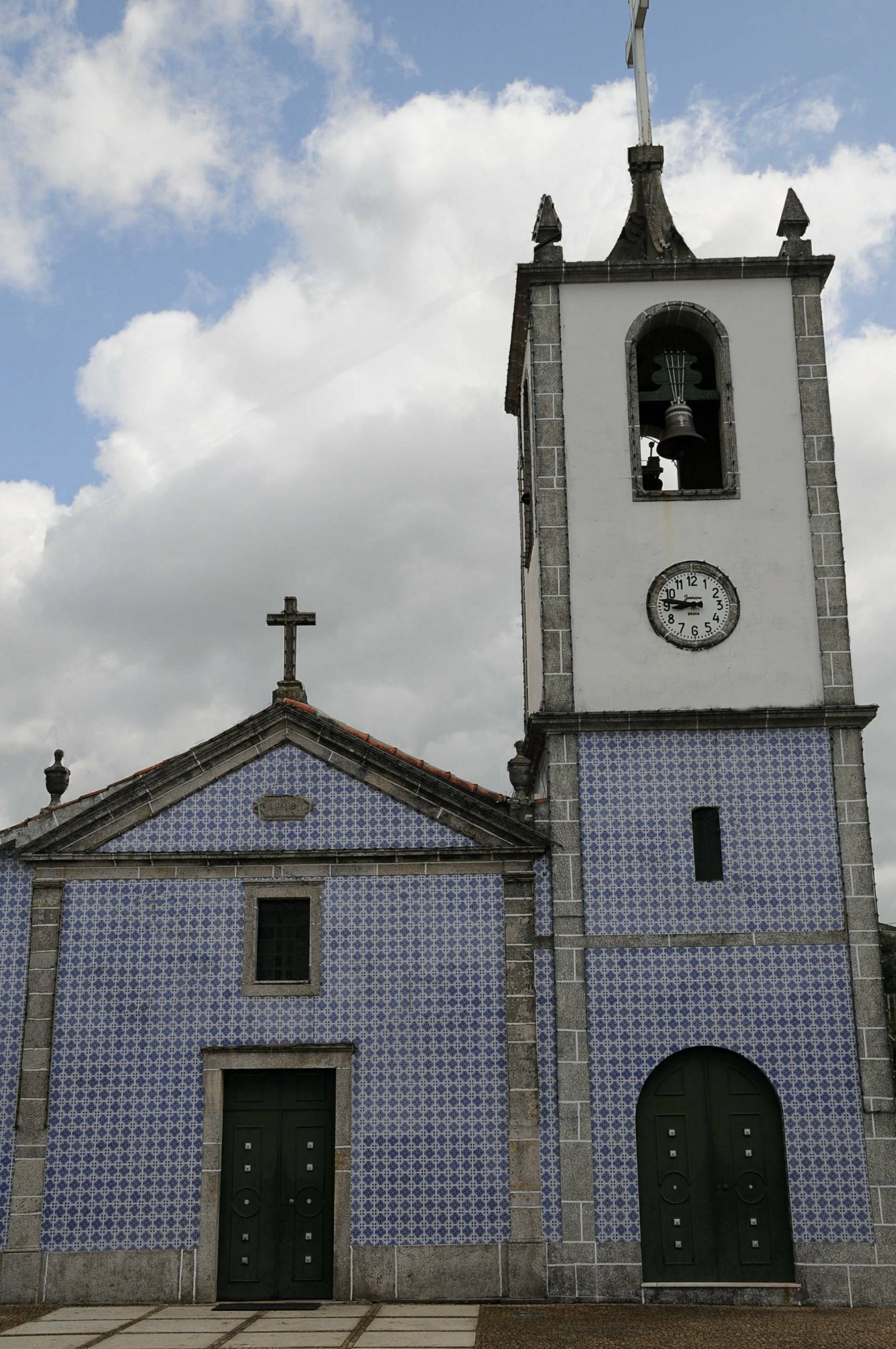 Vilaca Church, in Braga, Portugal